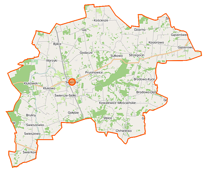 Map of Gmina Świercze, Poland This map of Świercze (gmina) was created from OpenStreetMap project data, collected by the community. This map may be incomplete, and may contain errors. Don't rely solely on it for navigation. Border coordinates52.724920.6879←↕→20.915652.6108